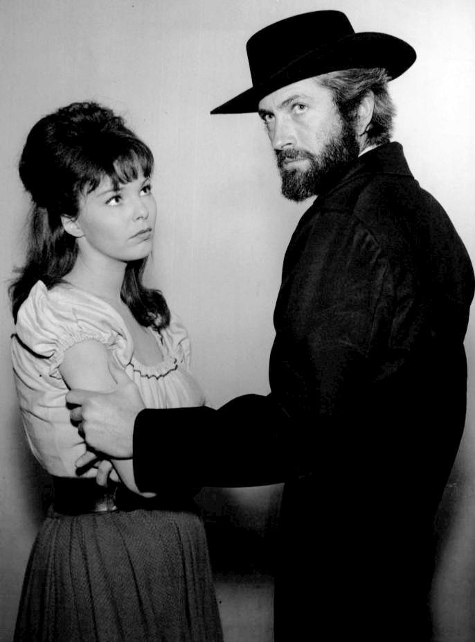 Photo of Anne Helm and John Drew Barrymore from their guest appearances on Gunsmoke.